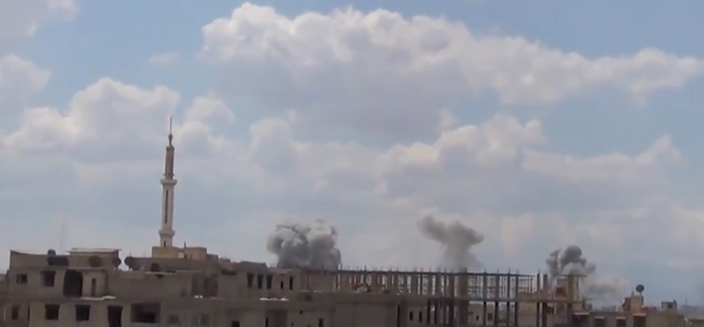 Government airstrikes during SAA advances in Southern Damascus